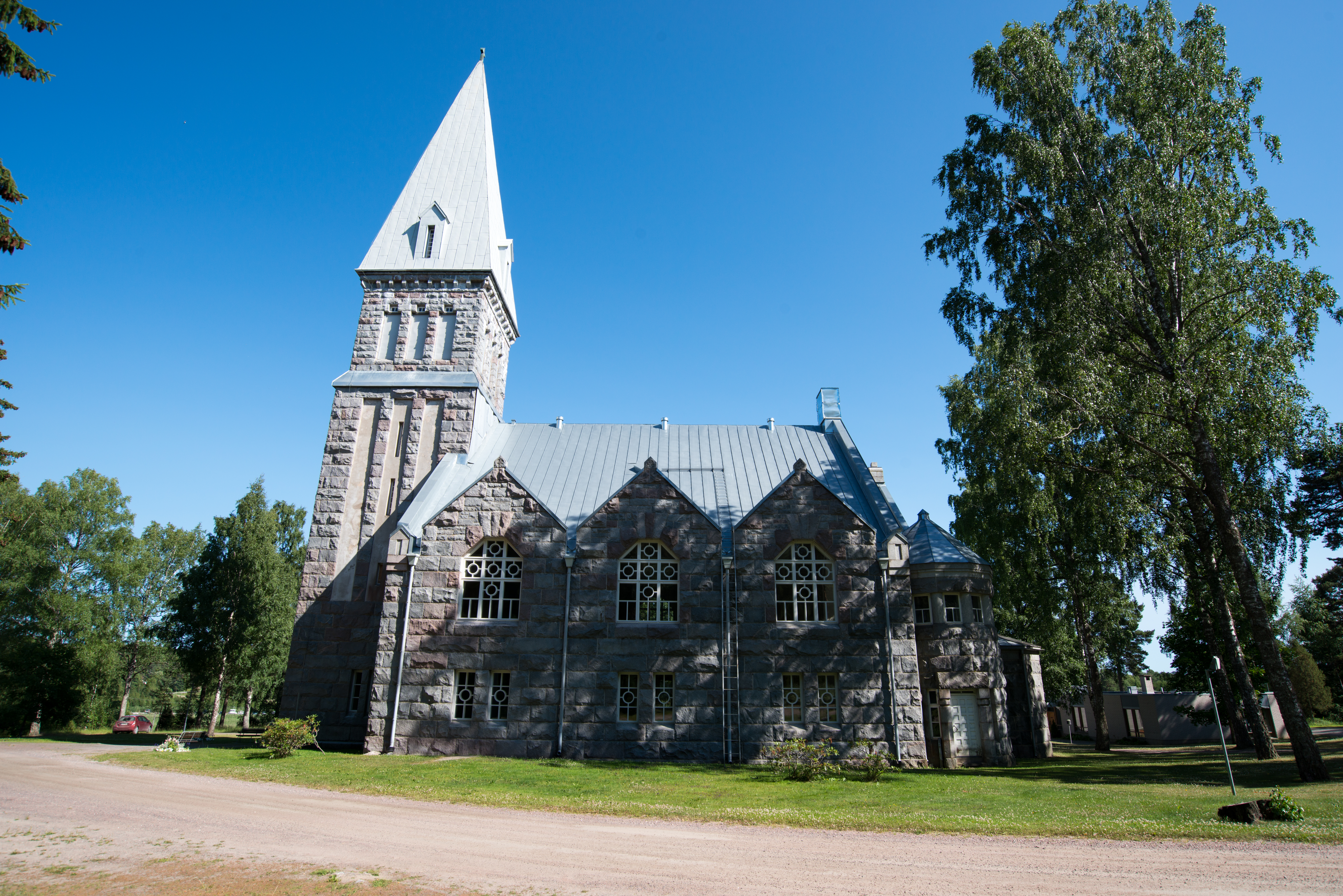 Västanfjärd New Church in Västanfjärd, Kimitoön, Finland.